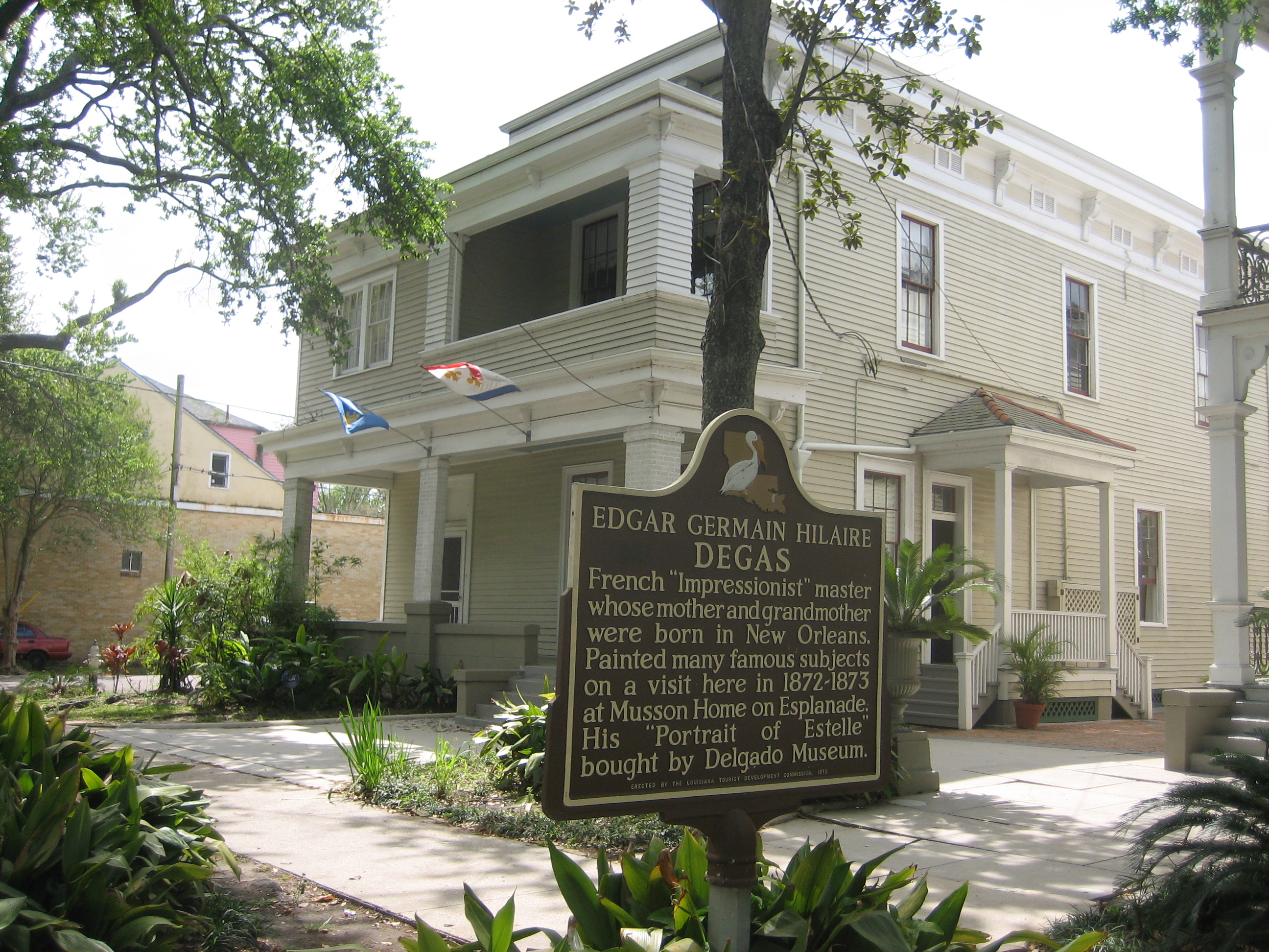 Historic marker, Degas house, Esplanade Avenue, New Orleans.